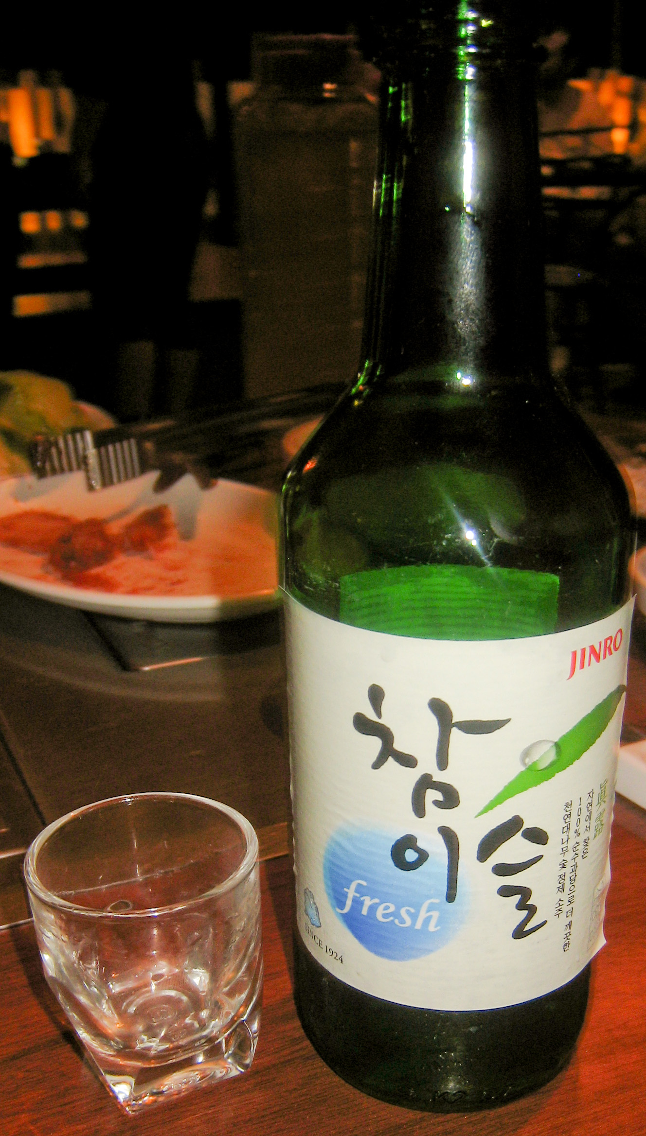 Soju, distilled Korean alcoholic beverage